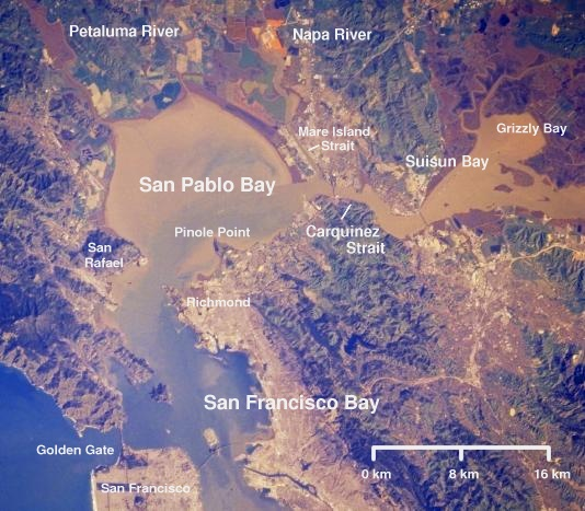 Satellite picture of San Pablo Bay, Carquinez Strait, and Suisun Bay - in the Category:San Francisco Bay Area, California. © 2004 Matthew Trump, adapted from public domain NASA satellite photo.